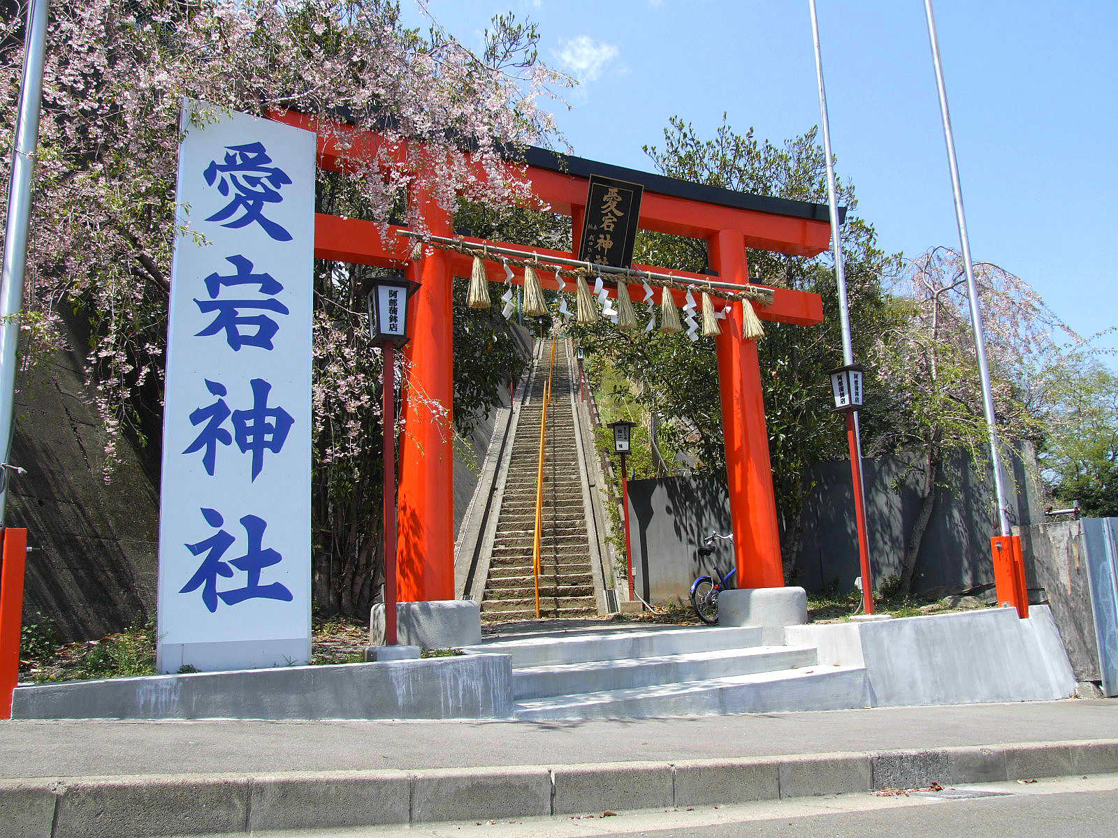 Torii of Atago Shrine (Atago-jinja) of Sendai – Mukaiyama 4 chōme, Taihaku ward, Sendai, Miyagi prefecture, Japan. Westward from the foot of Mt. Atago